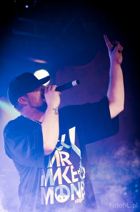 Polish rapper Waldemar Kasta, 2010